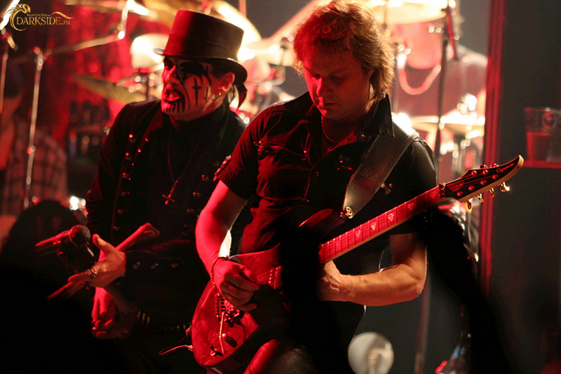 King Diamond's concert at Moscow, Russia